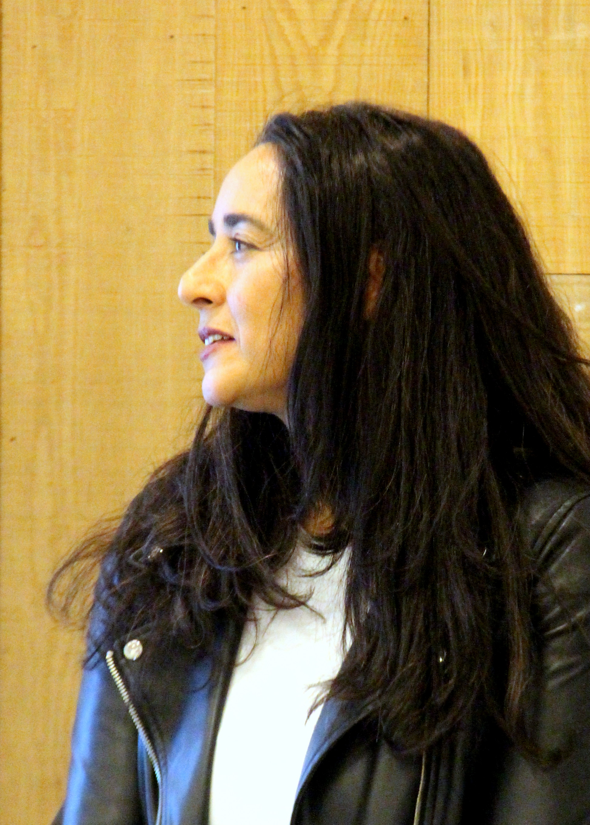 Wikimedia DC Annual Membership Meeting 2017 Distinguished Service Award, Soraya L. Chemaly